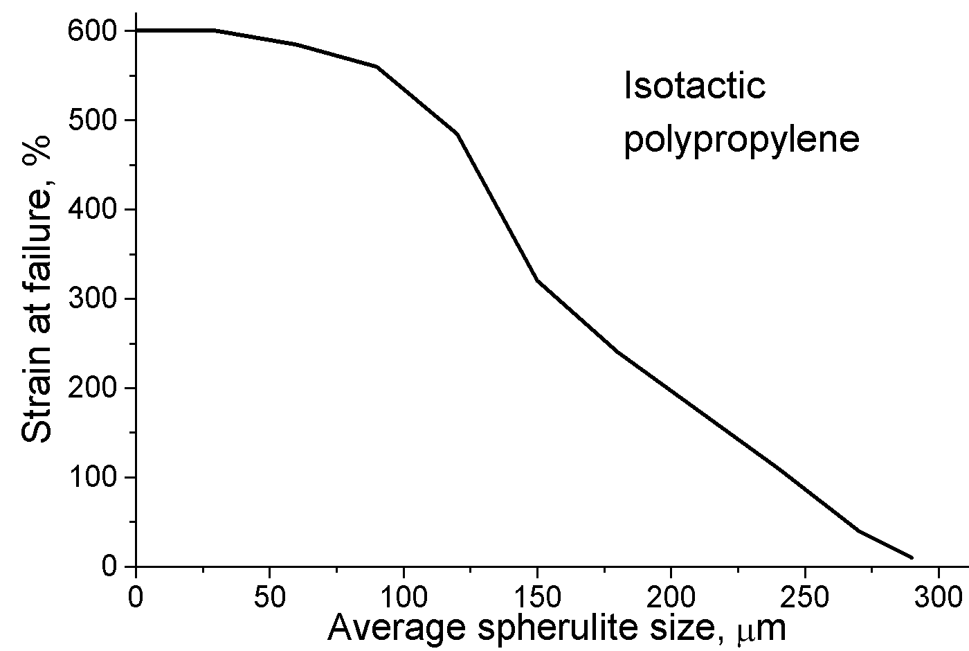 Strain at failure (breakage) vs. spherulite sizer in isotactic polypropylene. Redrawn after G. W. Ehrenstein, Richard P. Theriault (2001) Polymeric materials: structure, properties, applications, Hanser Verlag, p. 84 ISBN: 1569903107.